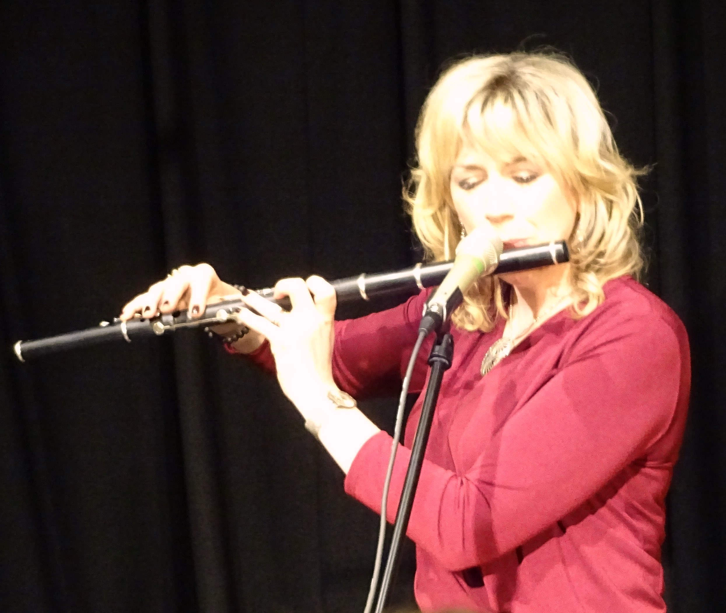 Muireann Nic Amhlaoibh at Tech Amergin, Waterville, Co Kerry on December 9th 2017